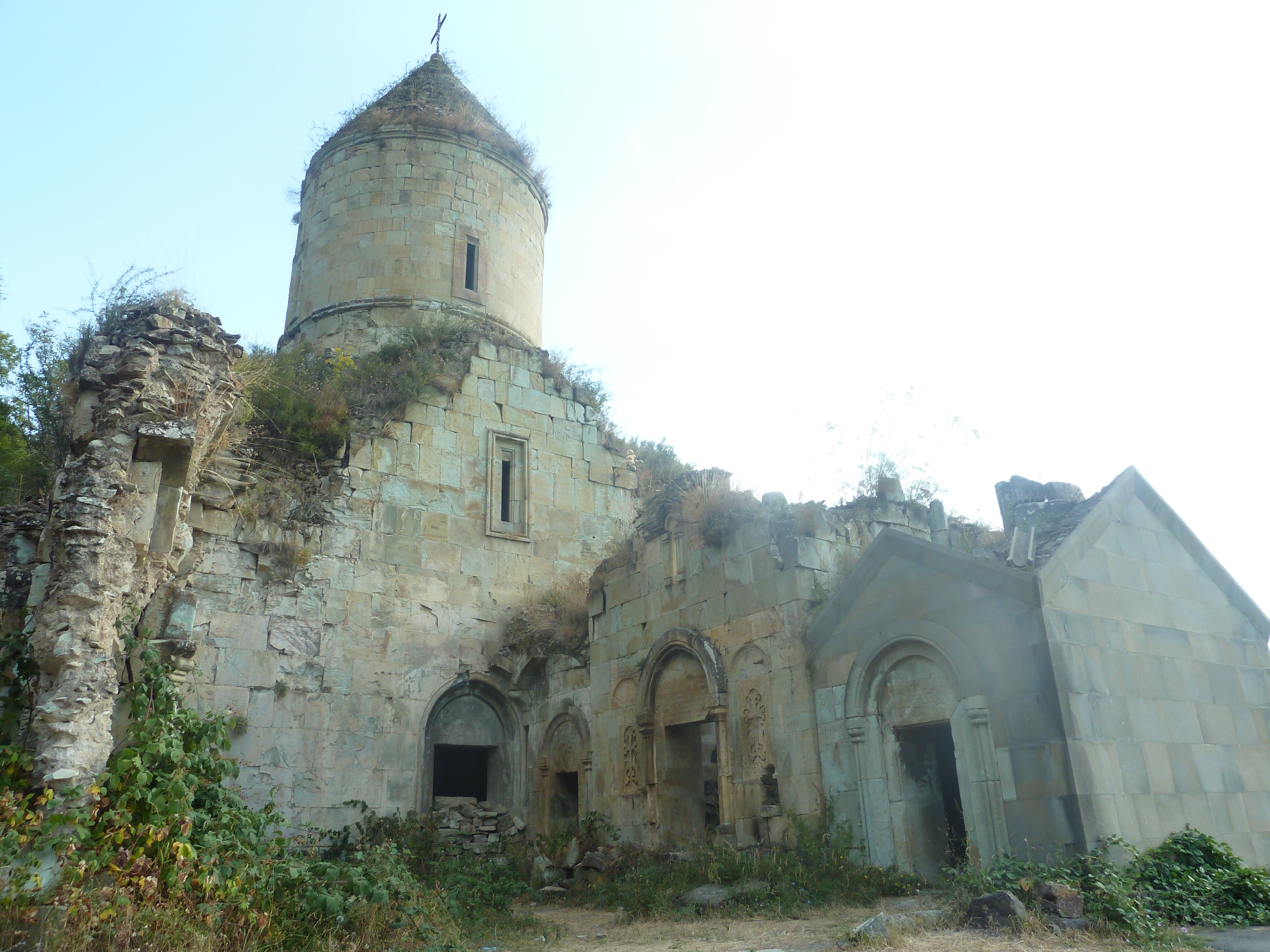 Monastery of Nor Varaga in Varagavan village of Tavush proince of Armenia.